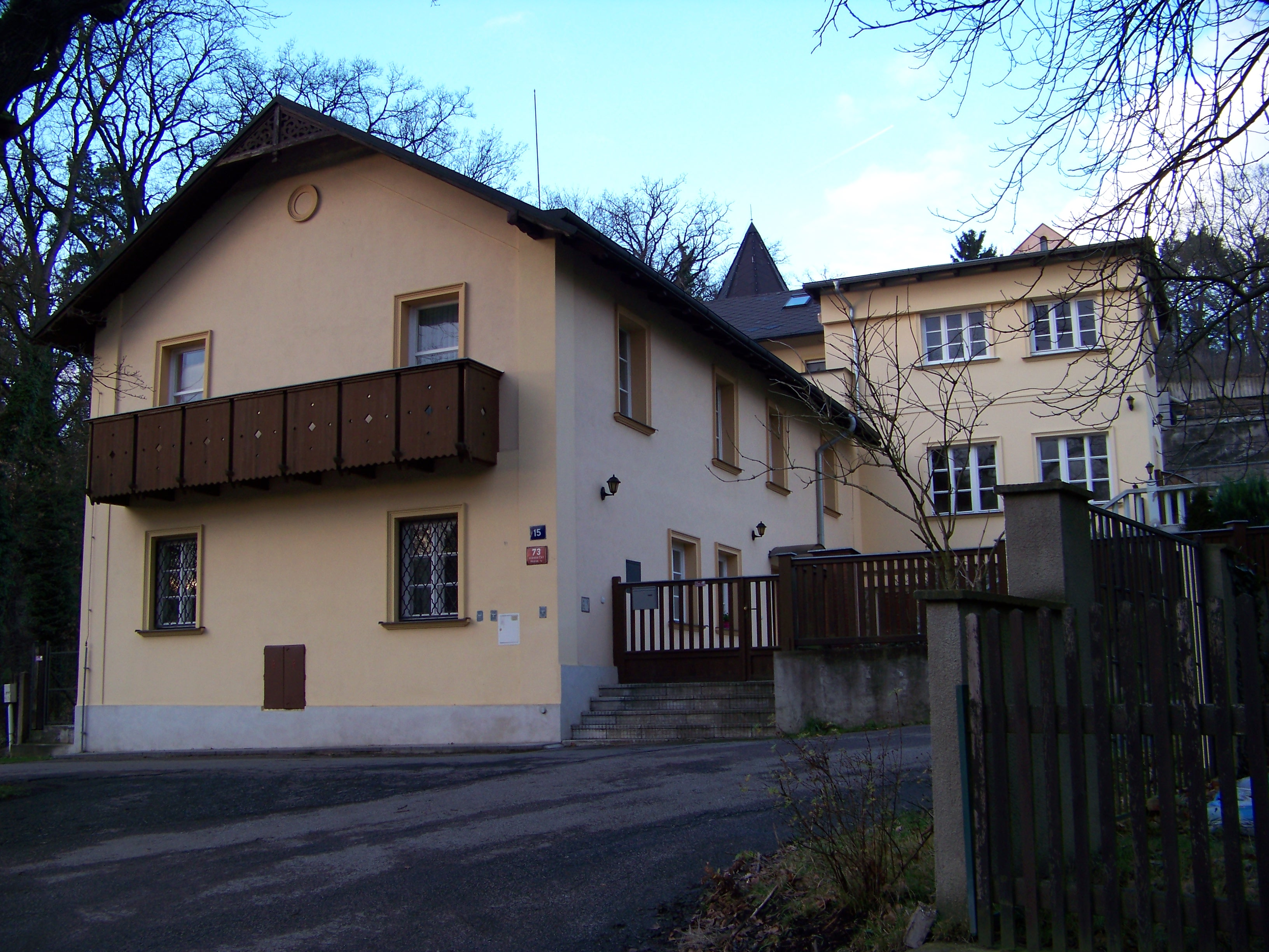 Prague-Hodkovičky, the Czech Republic. Zátiší, V lučinách street, a house No 73/15, a former restaurant, a view from Na dlouhé mezi street.